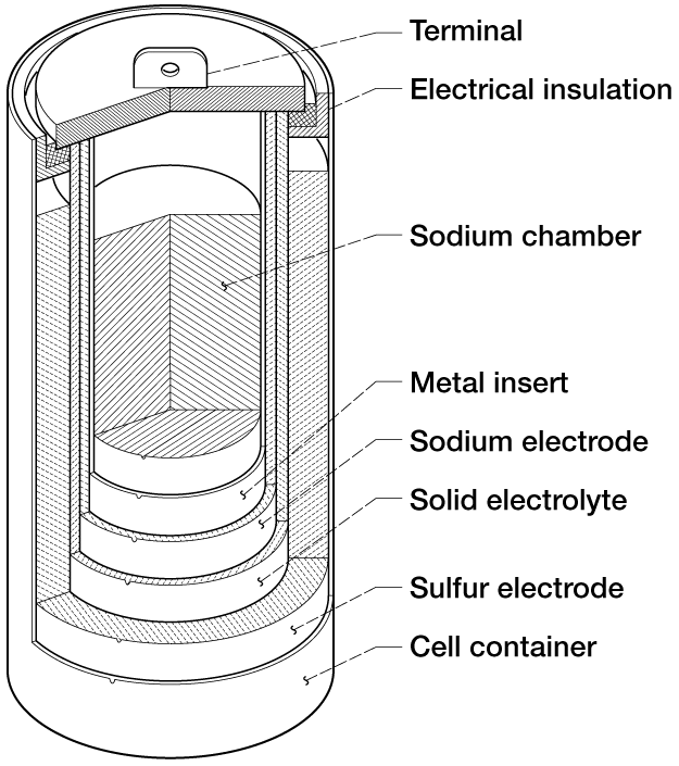 Cut-away schematic of Sodium-sulfur battery.